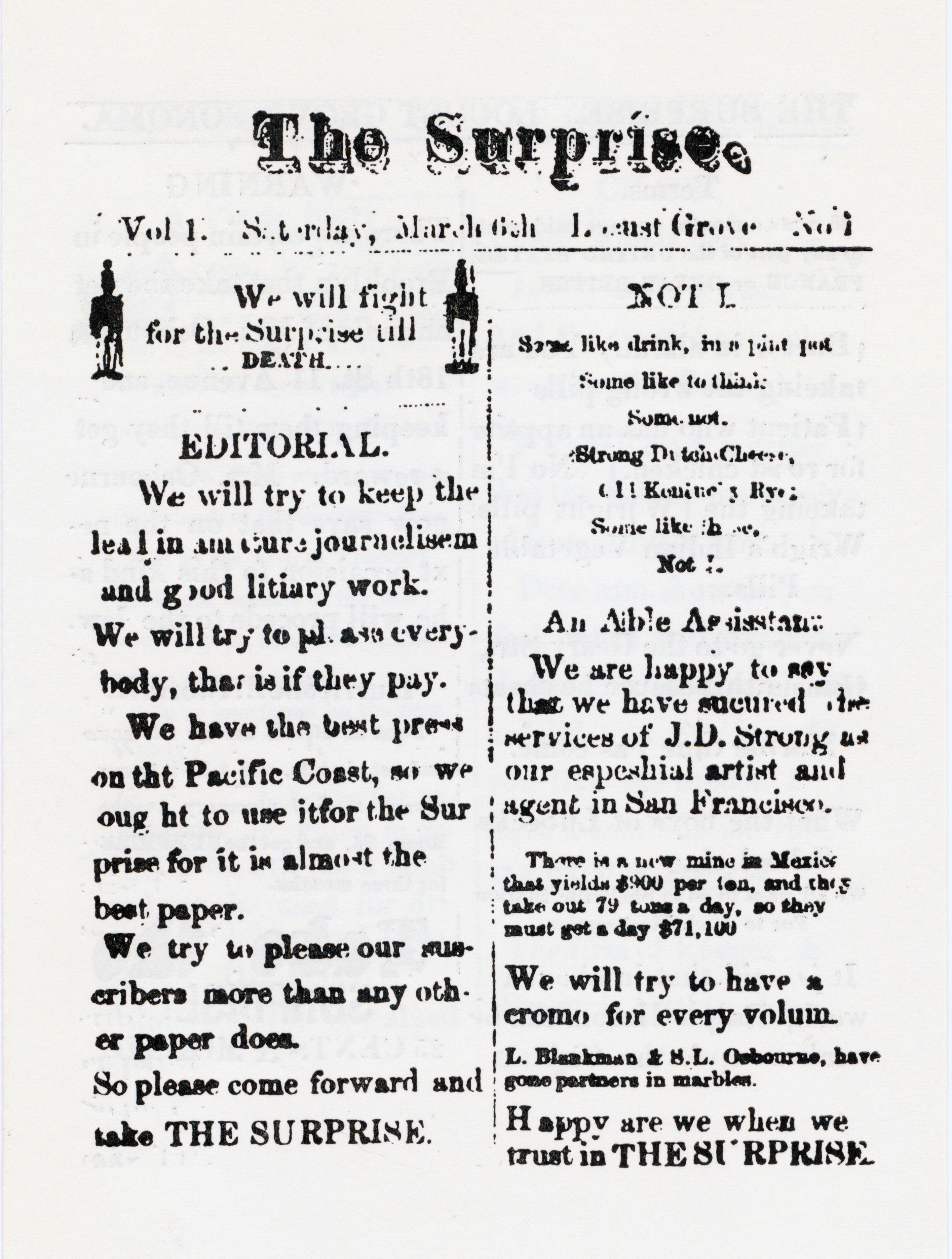 First issue of The Surprise, self published by Lloyd Osbourne, featuring an abridged version of Not I!, a poem by Robert Louis Stevenson